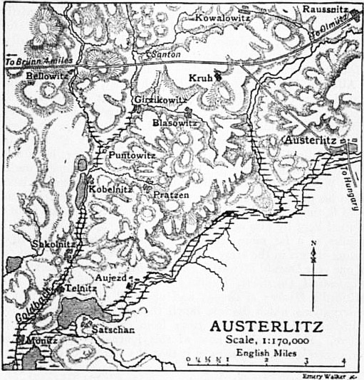 Map of AusterlitzIllustration from 1911 Encyclopædia Britannica, article Austerlitz.